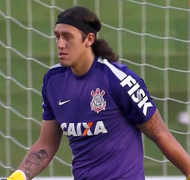 Ramos in Corinthians.